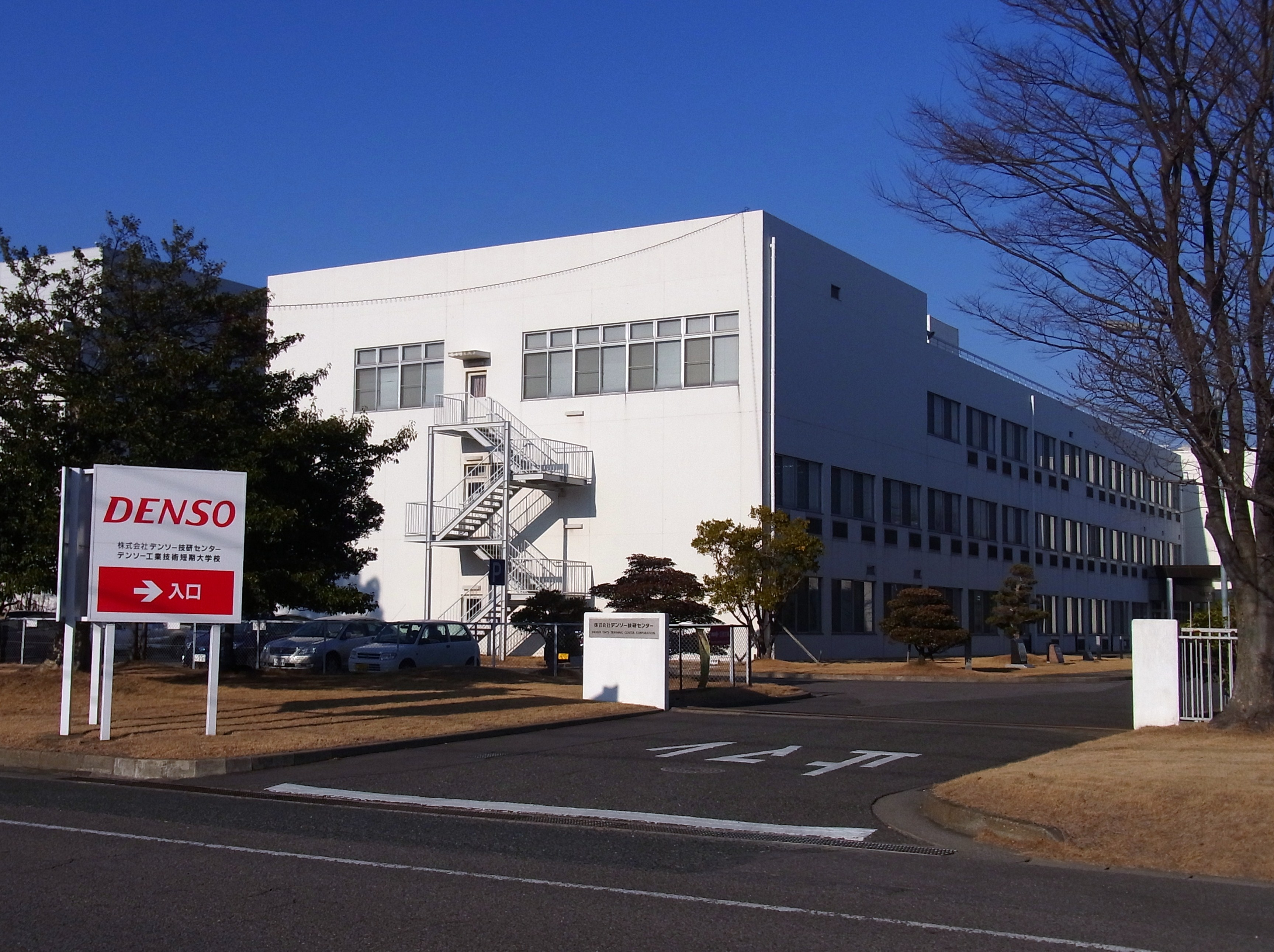 DENSO Technical College in Anjo City, Aichi Prefecture.